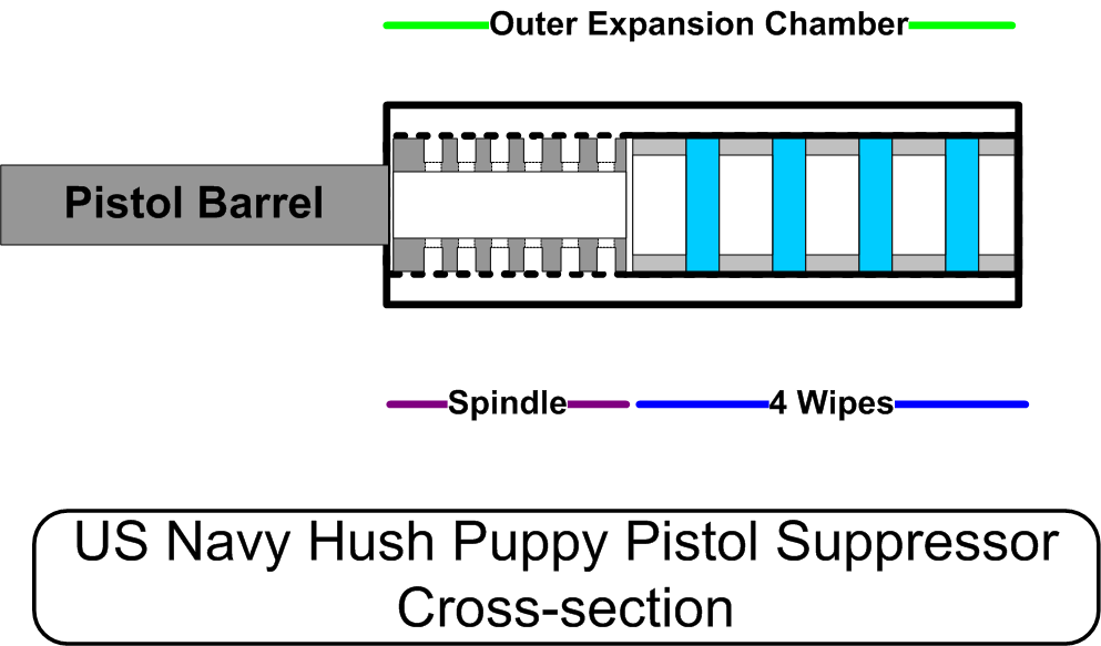 Hush Puppy pistol Silencer